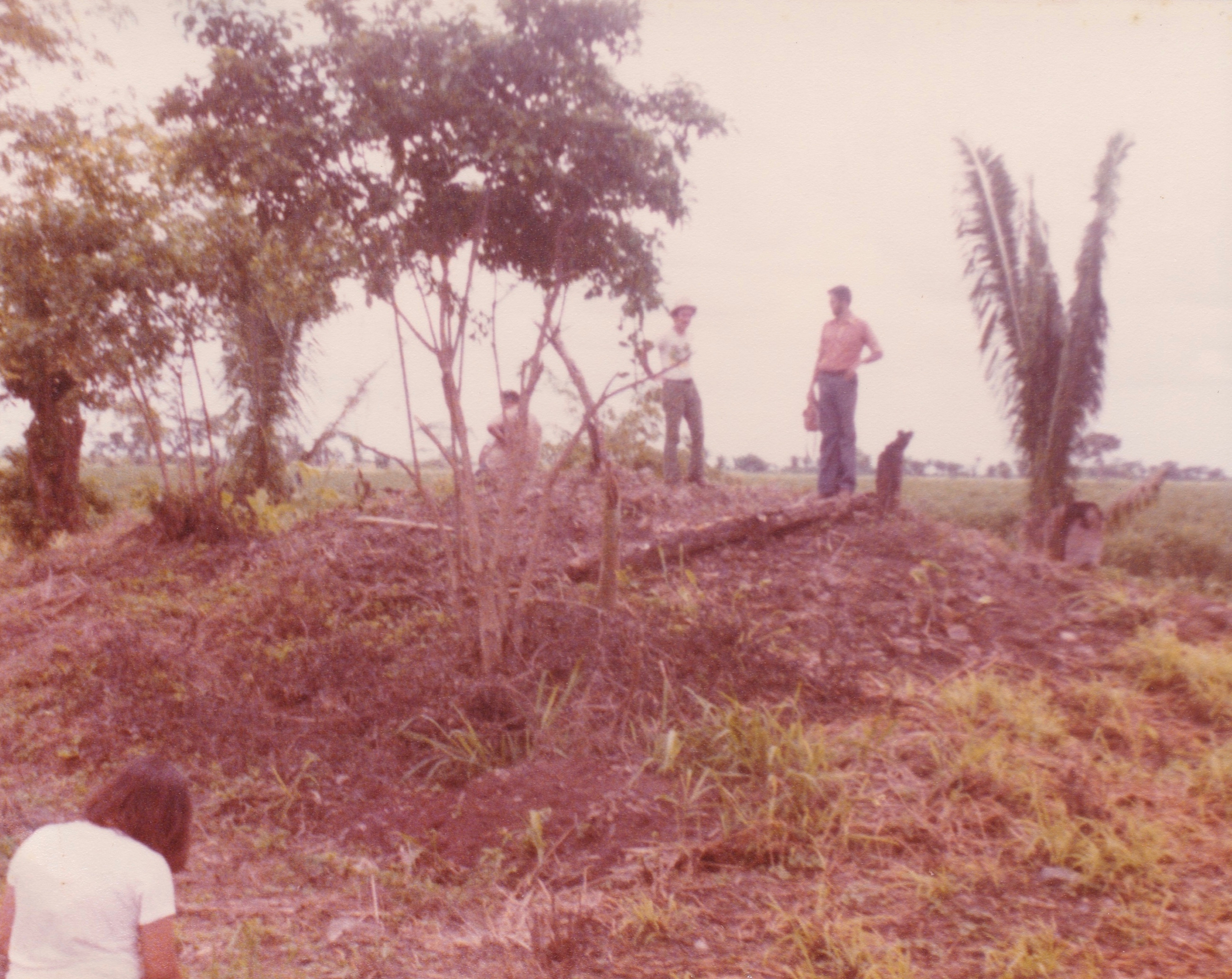 Honduras: Doing a short survey of surviving outlying ruins of La Travesía, a major pre-Columbian site that was mostly bulldozed mid-20th century.